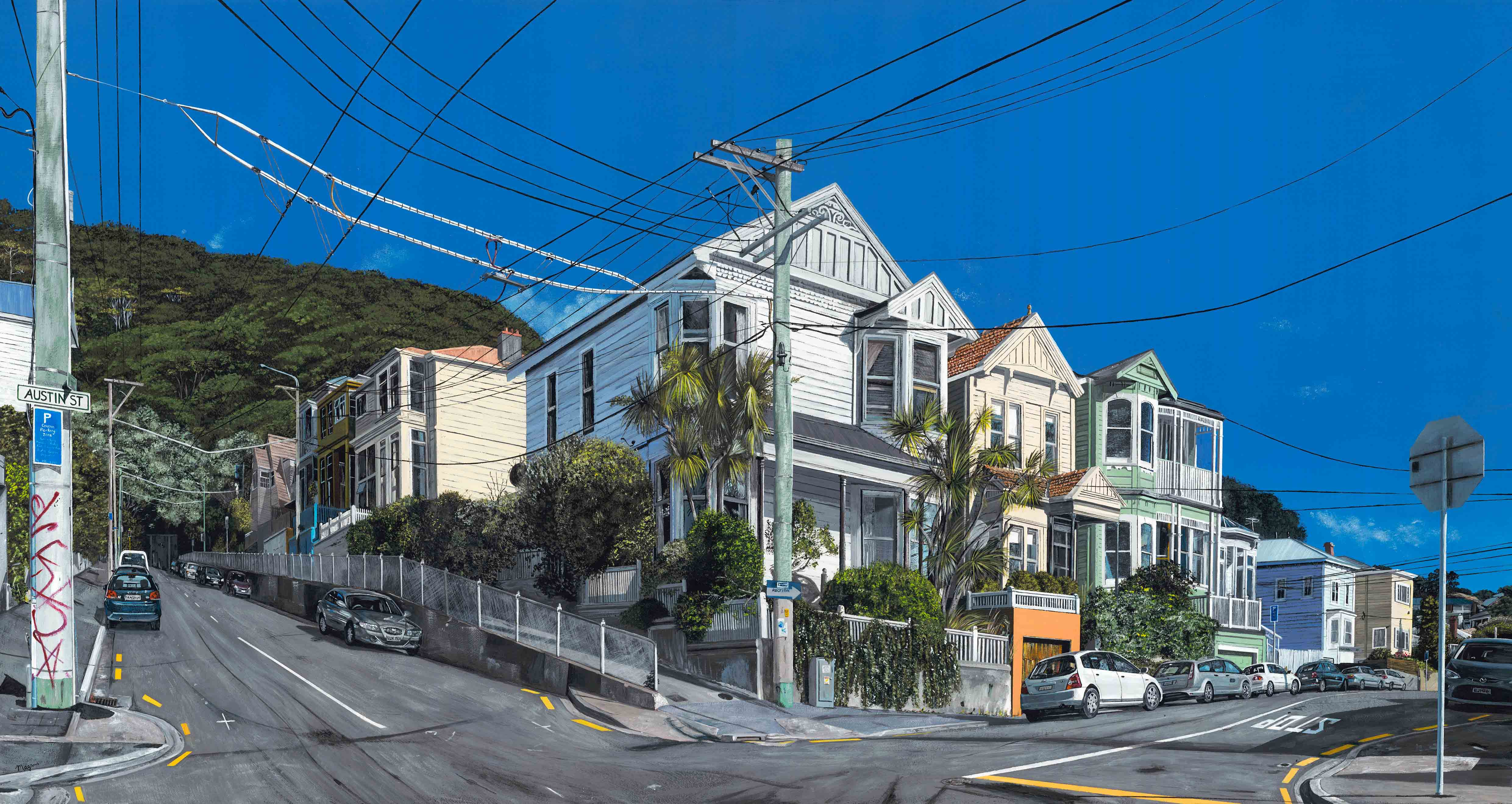 This acrylic painting by Jack Magnus McDonald is from the sunny Wellington suburb of Mt Victoria. This is the biggest, most detailed piece done to date and would make an excellent feature in any space.